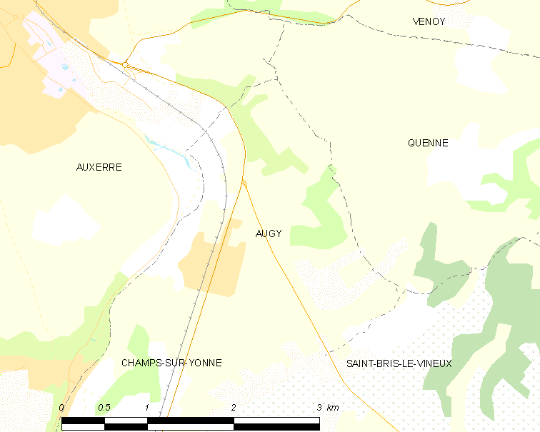 Map of French municipality Augy